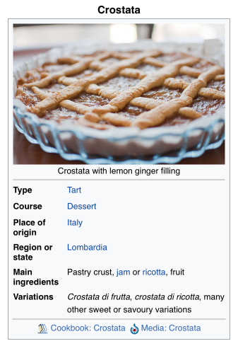 The infobox of the article crostata on the English Wikipedia.